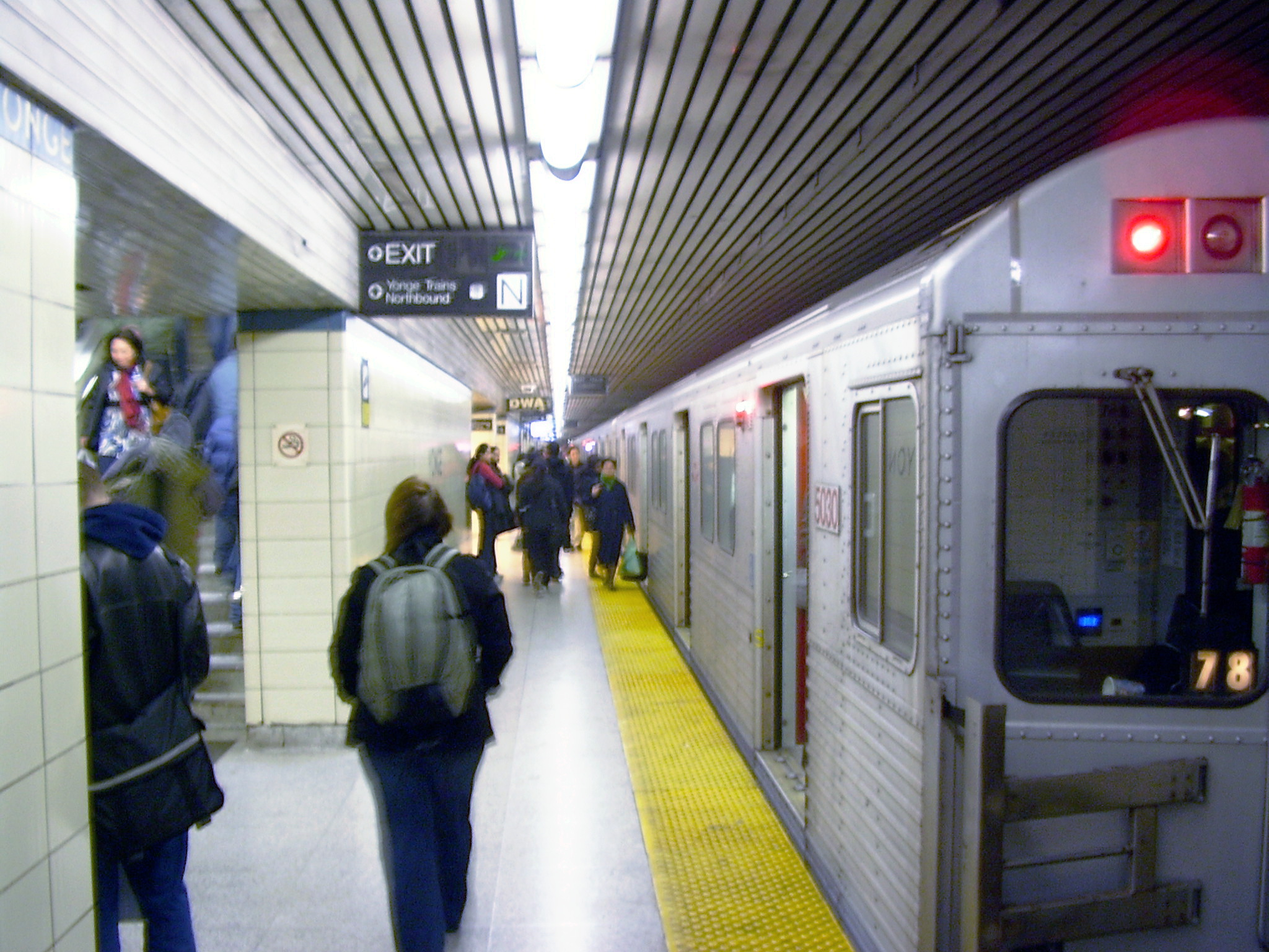 Yonge Station of the Toronto subway in the afternoon rush hour.